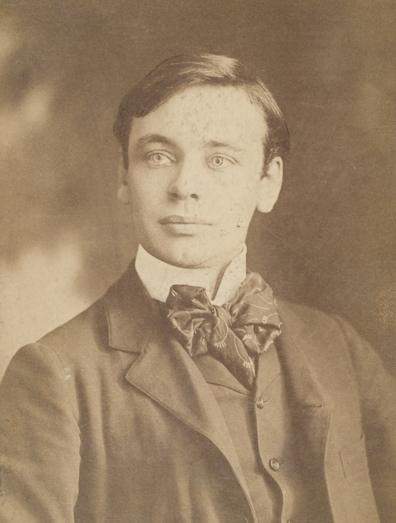 Frank A. Nankivell, Australian-born cartoonist, painter and etcher.